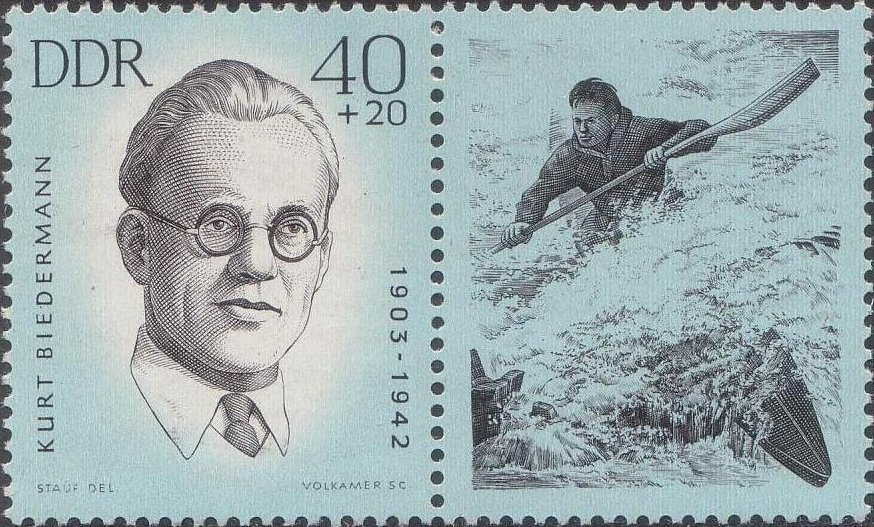 stamp, DDR 1963, Michel 987